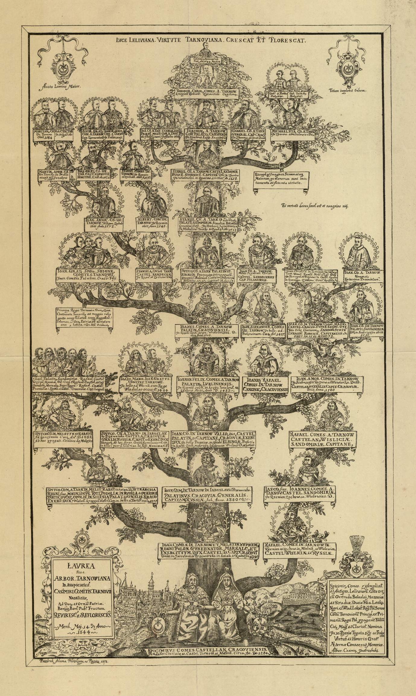 Genealogical tree families: Tarnowski, Melsztyński and Jarosławski. Augustinus Thille (copperplate 1644), text Wojciech Kazimierz Jastrzębski vel Albert Casimirus Jastrzębski; reprint Adam Piliński (homeography per copperplate, Paris, 1872)